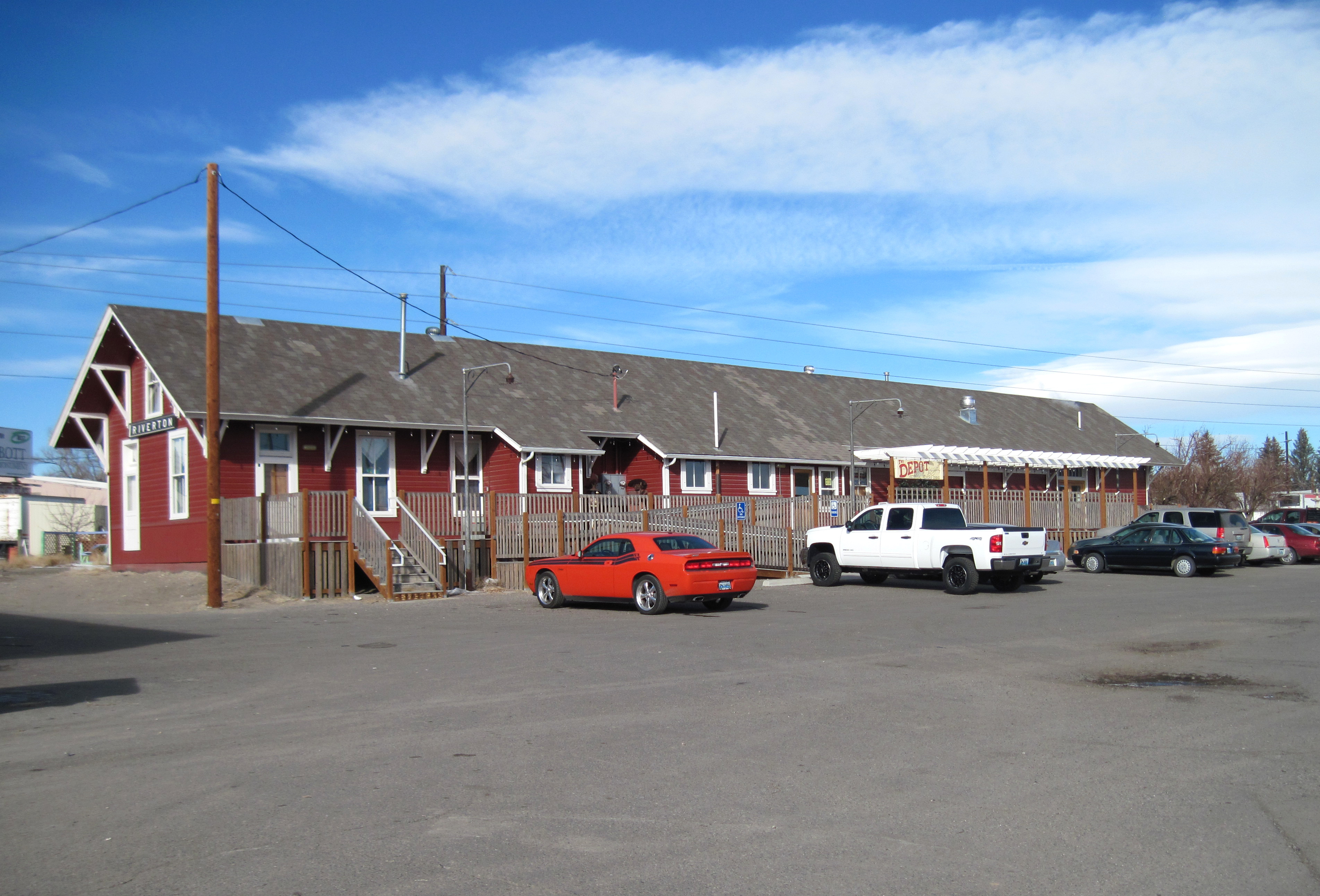 The old Riverton Railroad Depot at 1st and Main Sts. in Riverton, Wyoming. Built in 1906-1907, the building was added to the National Register of Historic Places on May 22, 1978. It appears to be currently in use as a restaurant.